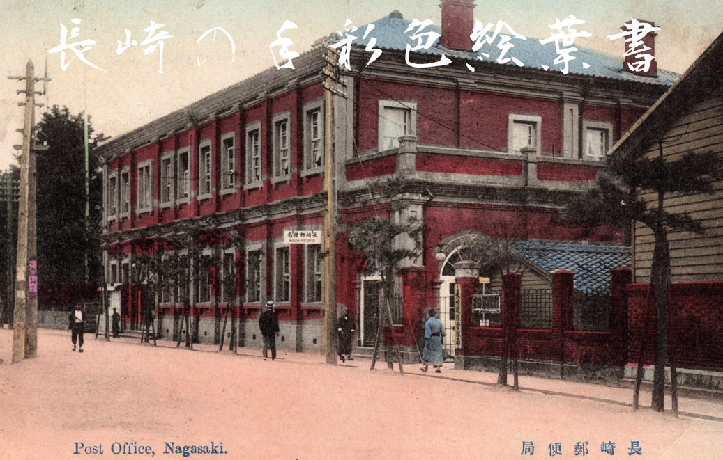 Japanese hand tinted postcard of the main post office in Nagasaki